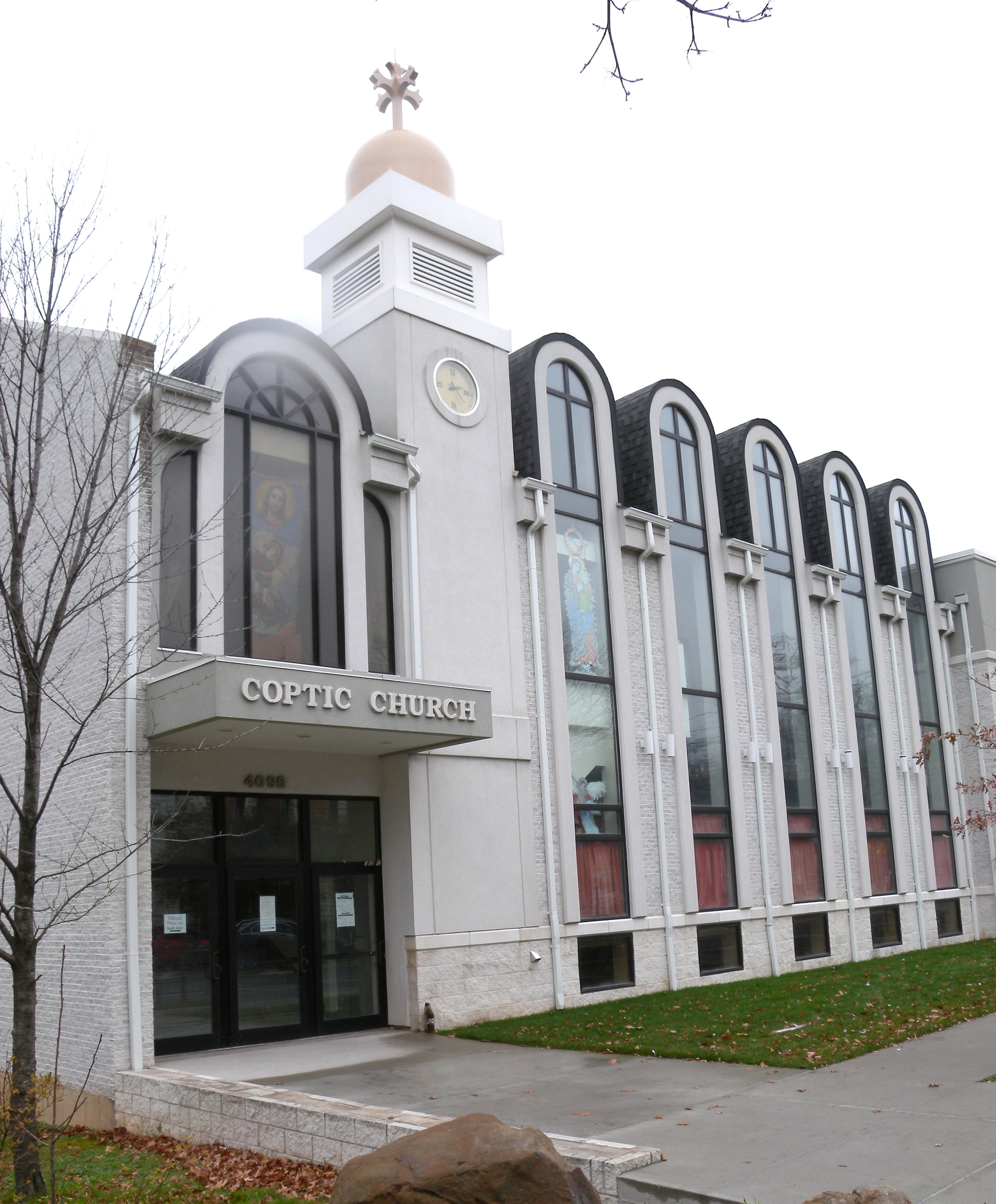 Looking east on a rainy afternoon at Coptic Orthodox Church of Archangel Michael and Saint St Mena Staten Island in Great Kills